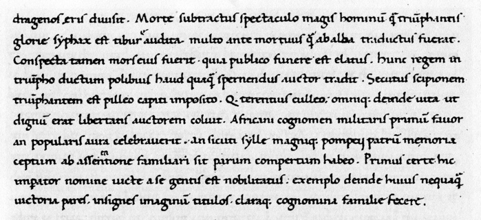 Summary of Poggio's handwriting